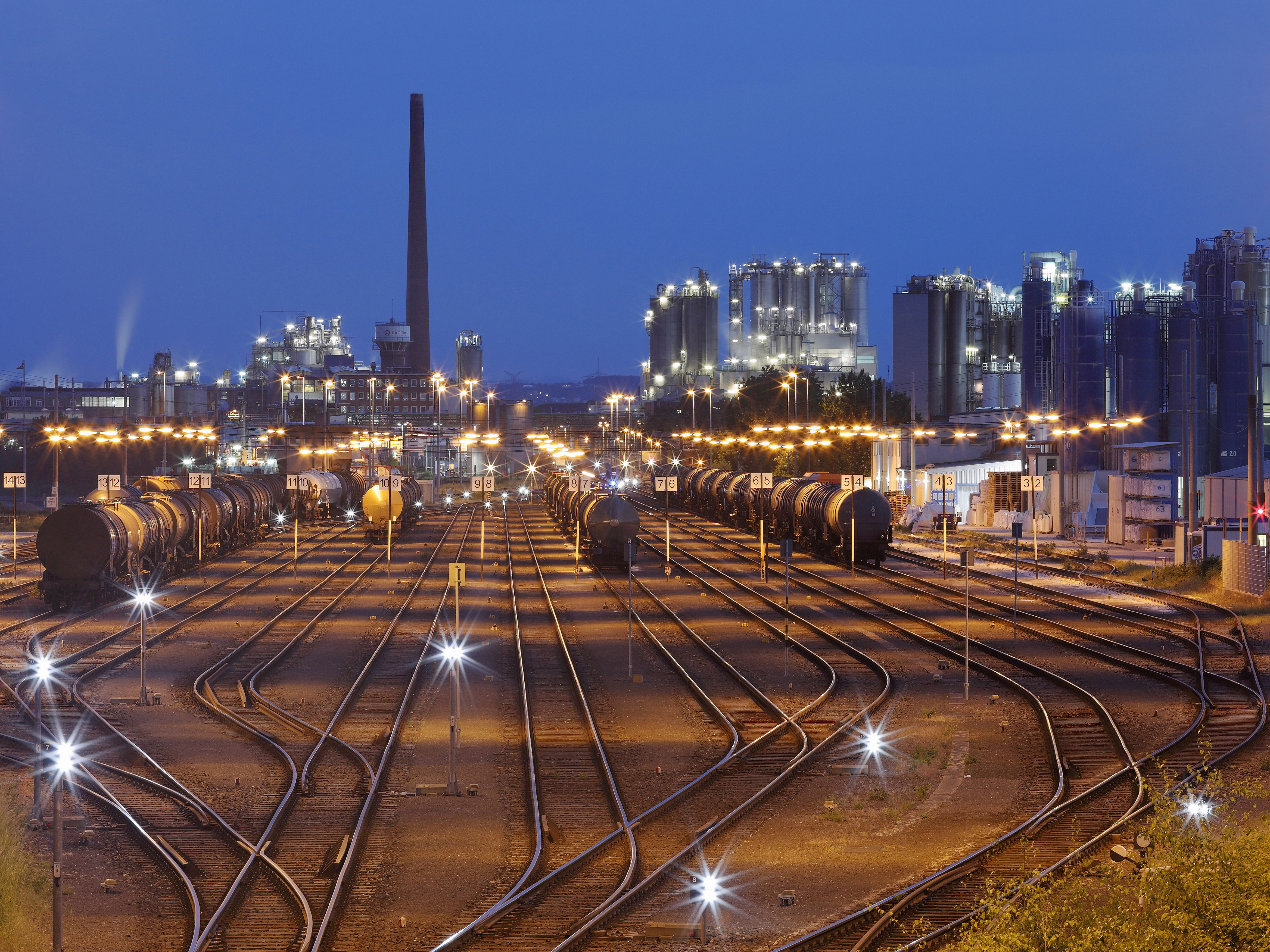 Classification yard Godorf, Cologne, at dusk with LyondellBasell Industries refinery in the background.